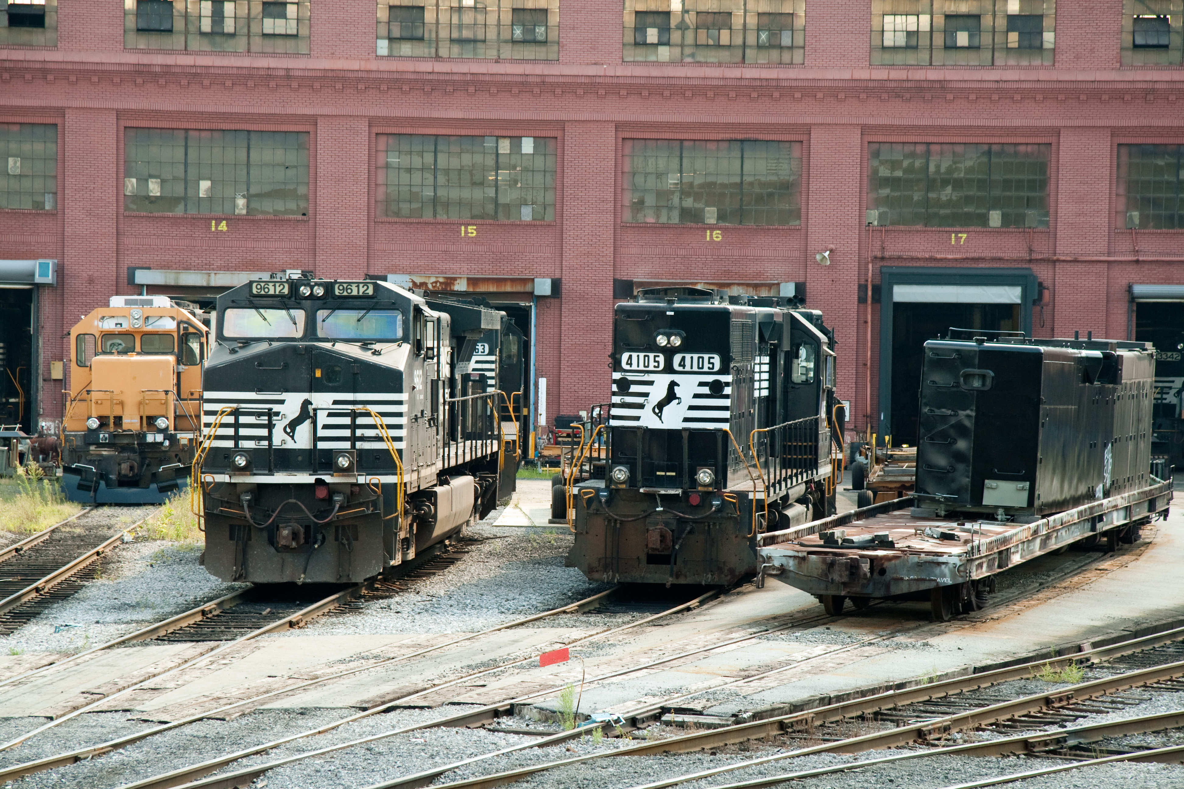 Several engines await repair outside one of the NS shop buildings in Altoona, PA.